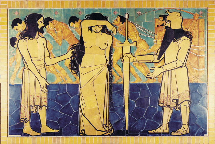 Beurs van Berlage Café; tile panel "The Past" - own photo